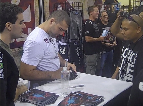 Mauricio "Shogun" Rua with fans - UFC 100 Fan Expo - Mandalay Bay Casino, Las Vegas